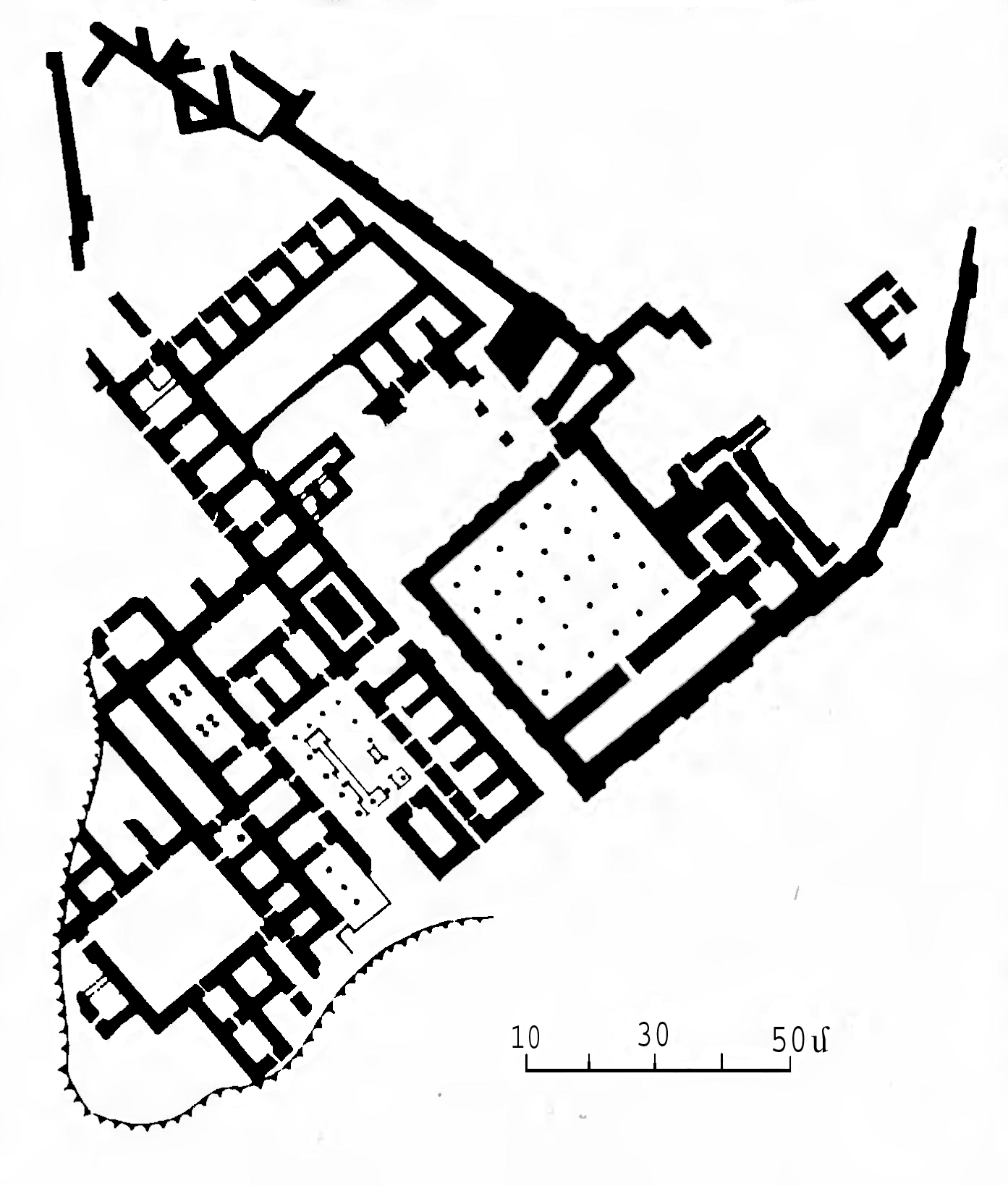 Plan of Erebuni castle